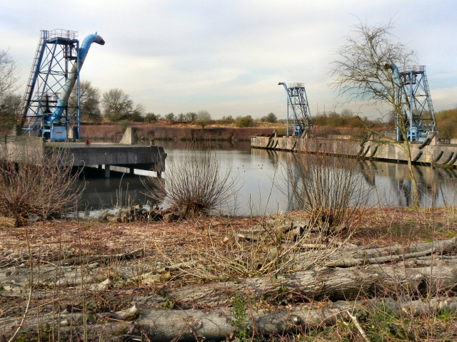 Davyhulme Wastewater Treatment Works - Sludge Hoppers